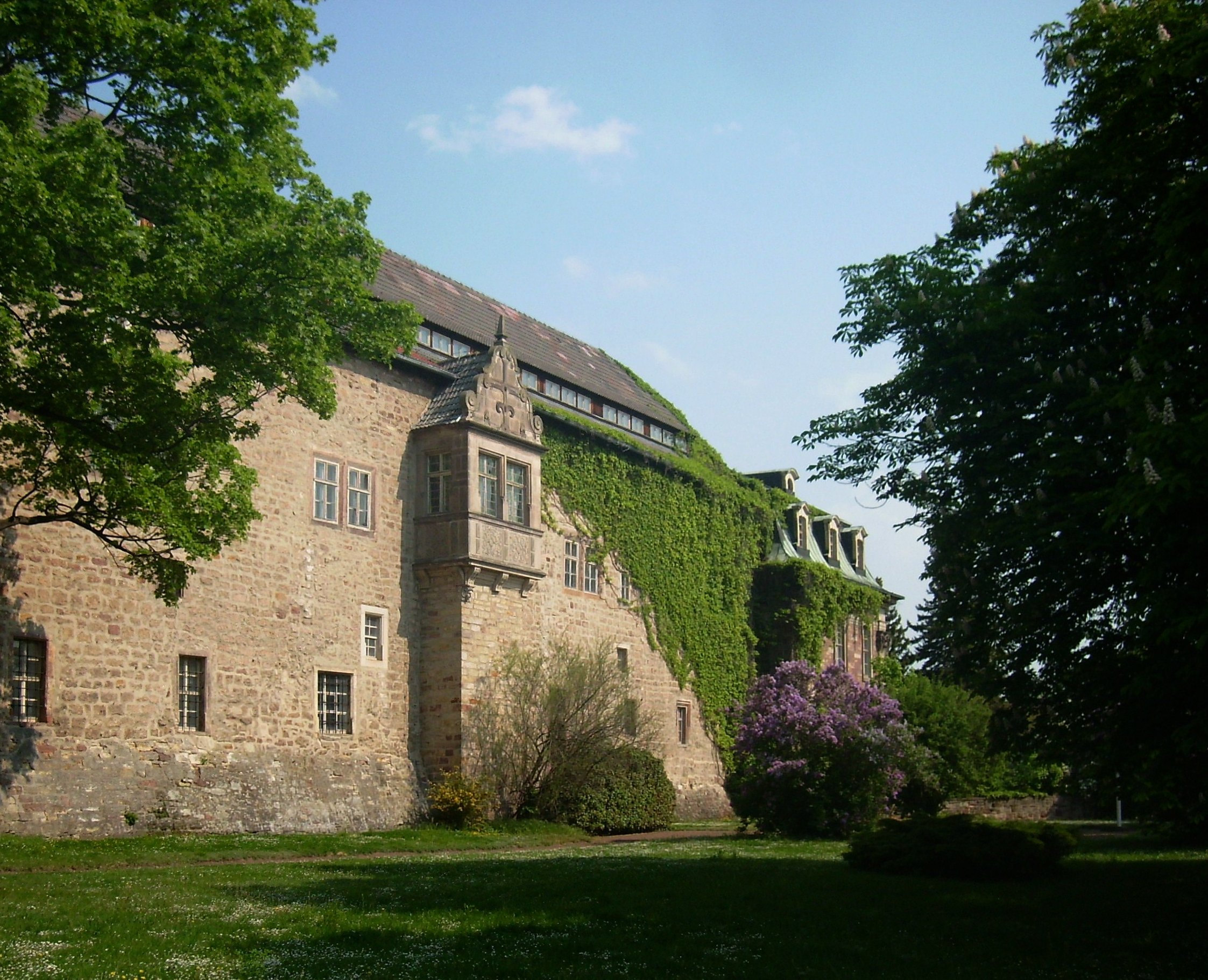 A part of Burgscheidungen Castle (Laucha an der Unstrut, district of Burgenlandkreis, Saxony-Anhalt)